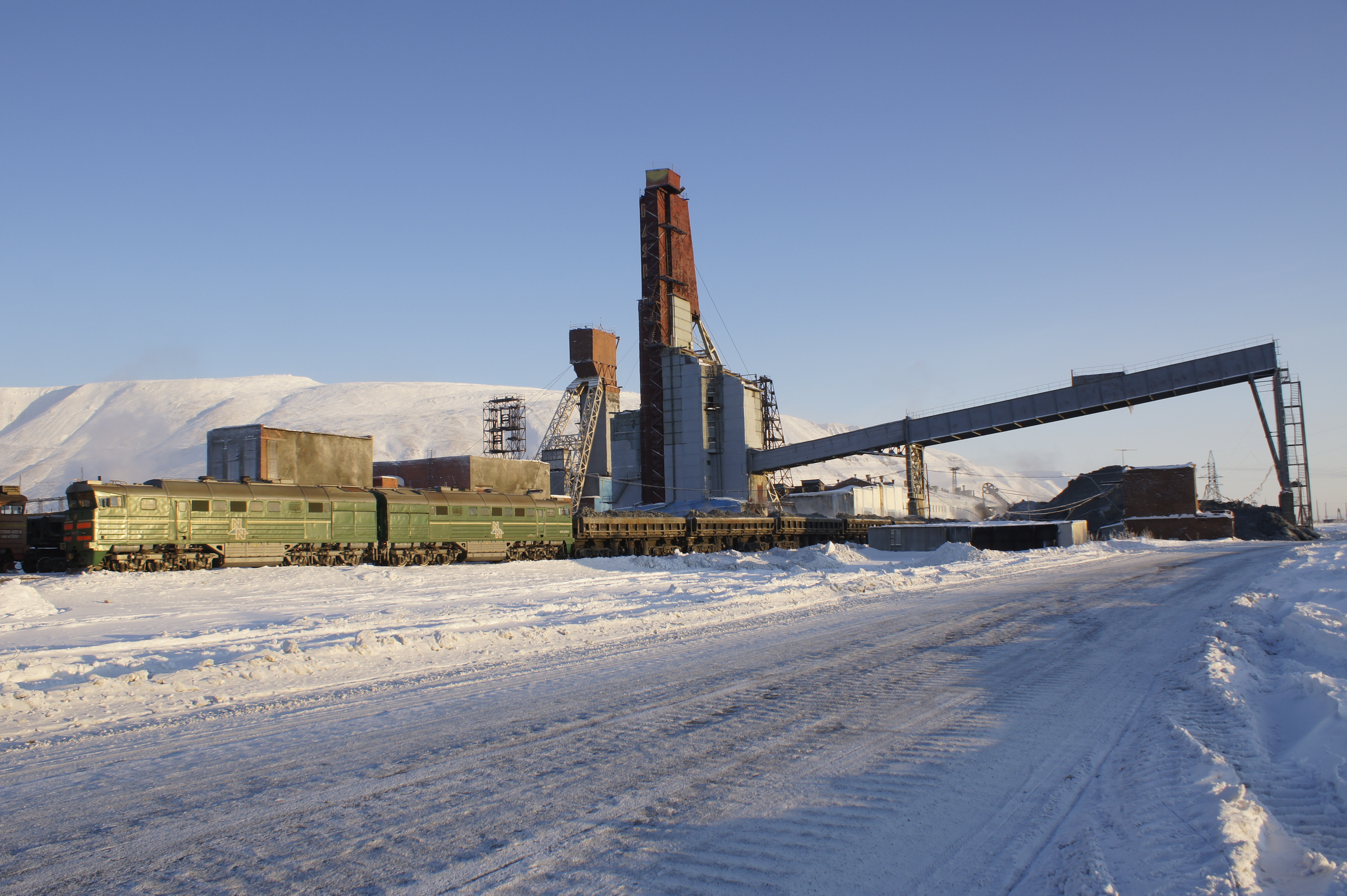 Mine "Beacon". Krasnoyarsk region, Norilsk industrial region.